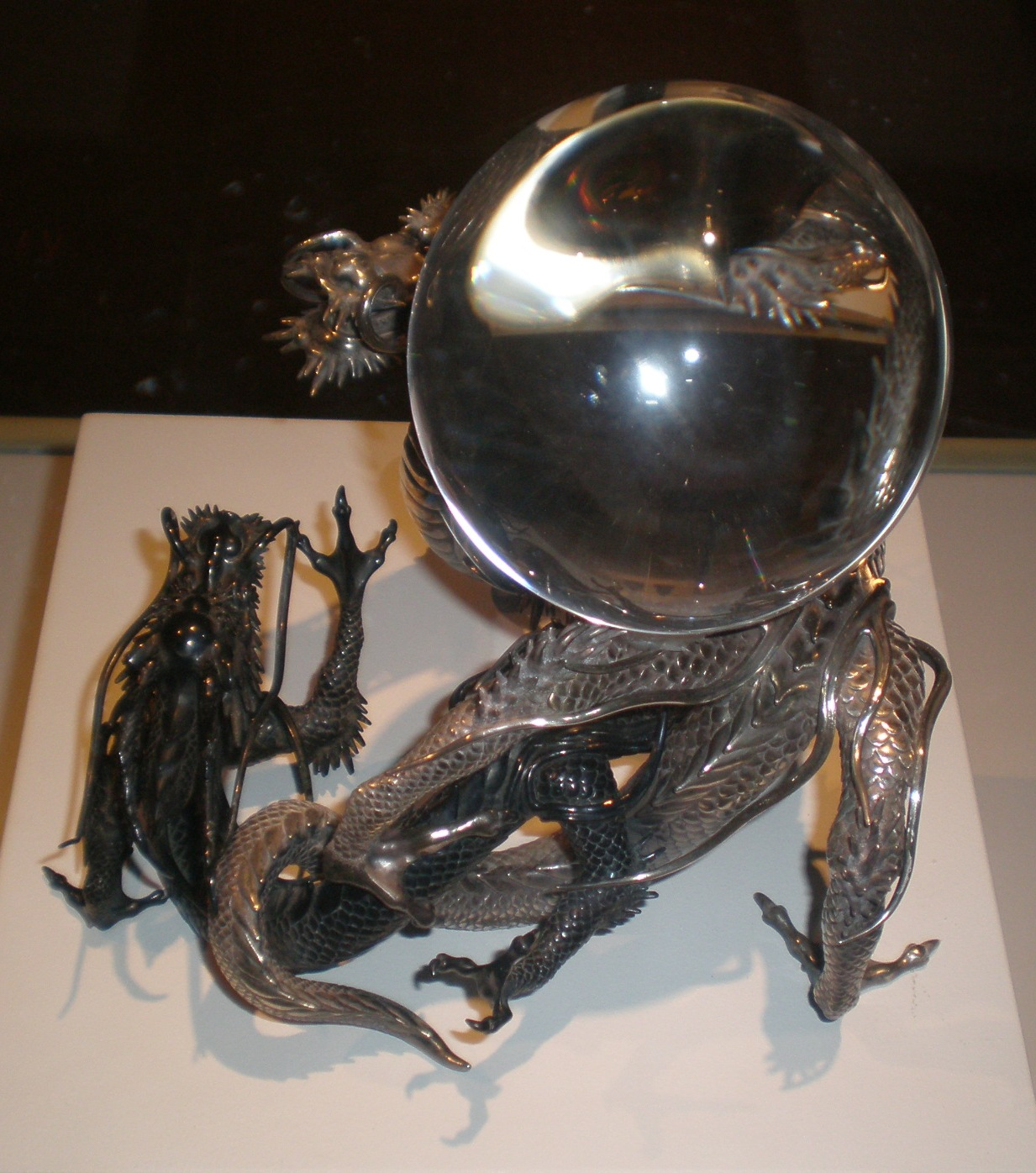 Two dragons holding a crystal ball (19th century) on display at the Iris & B. Gerald Cantor Center for Visual Arts on the Stanford University campus in Stanford, California.